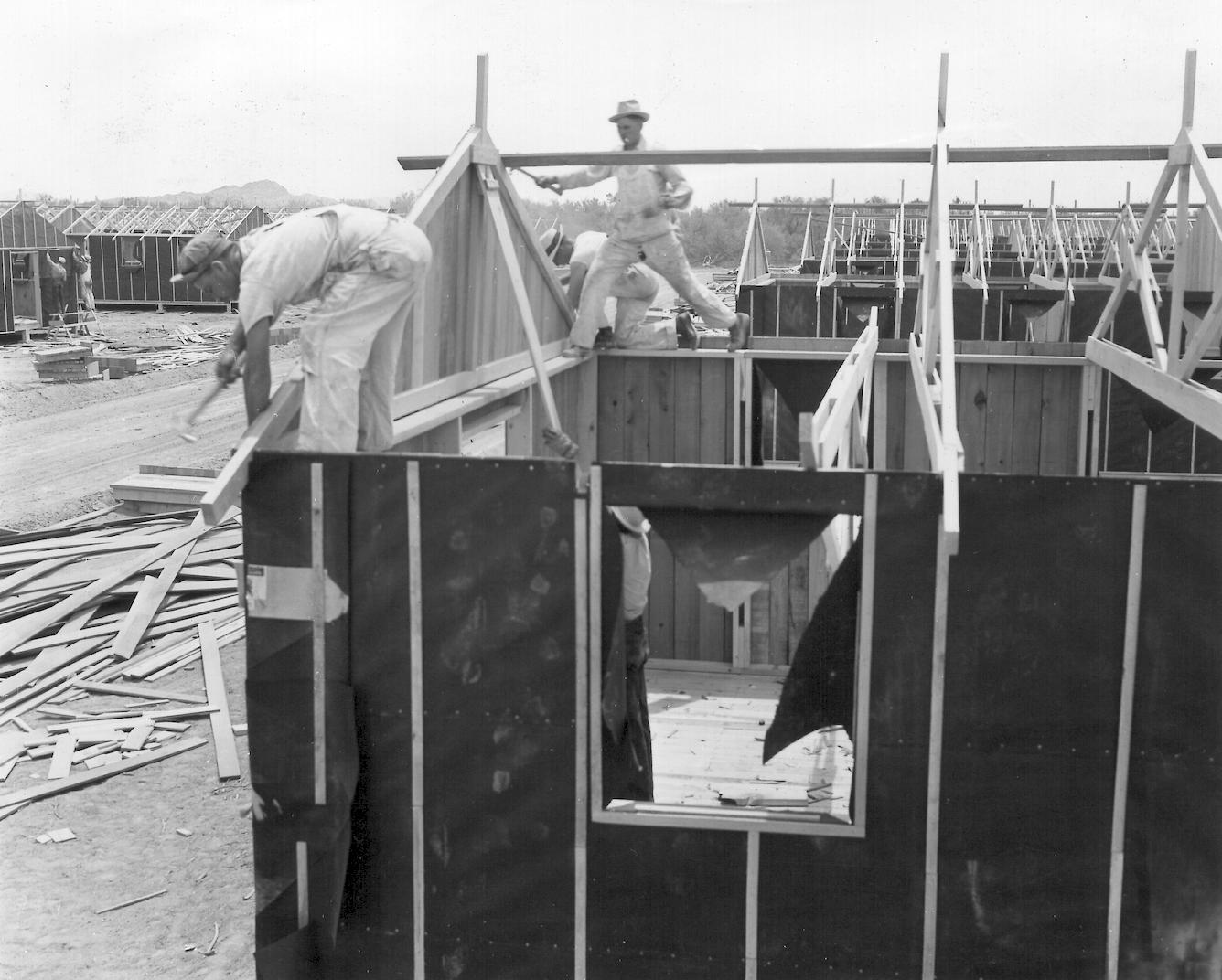 Title: Poston, Ariz.--(Site # 3)--Barracks under construction at this War Relocation Authority center where evacuees of Japanese ancestry are spending the duration. -- Photographer: Clark, Fred -- Poston, Arizona. 5/19/42 Identifier: Volume 2 Identifier: Section A Identifier: WRA no. A-385 Collection: War Relocation Authority Photographs of Japanese-American Evacuation and Resettlement Series 1: Colorado River Relocation Center (Poston, AZ) Contributing Institution: The Bancroft Library. University of California, Berkeley. *[ Poston, Ariz.--(Site # 3)--Barracks under construction at this War Relocation Authority center where evacuees of Japanese ancestry are spending the duration. -- Photographer: Clark, Fred -- Poston, Arizona. 5/19/42]